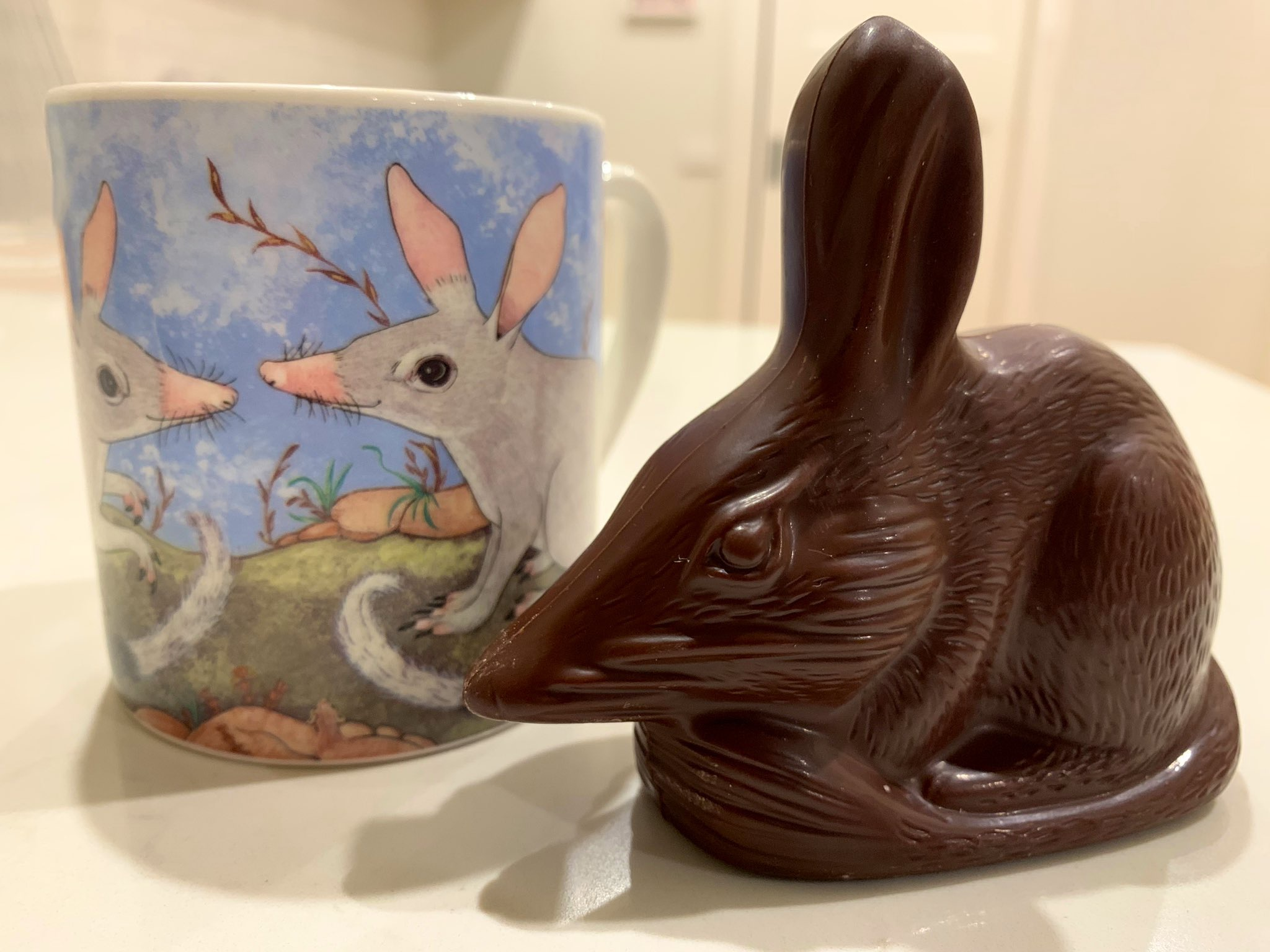 Haigh's chocolate Easter Bilby (dark chocolate) with Bilby mug on a white bench